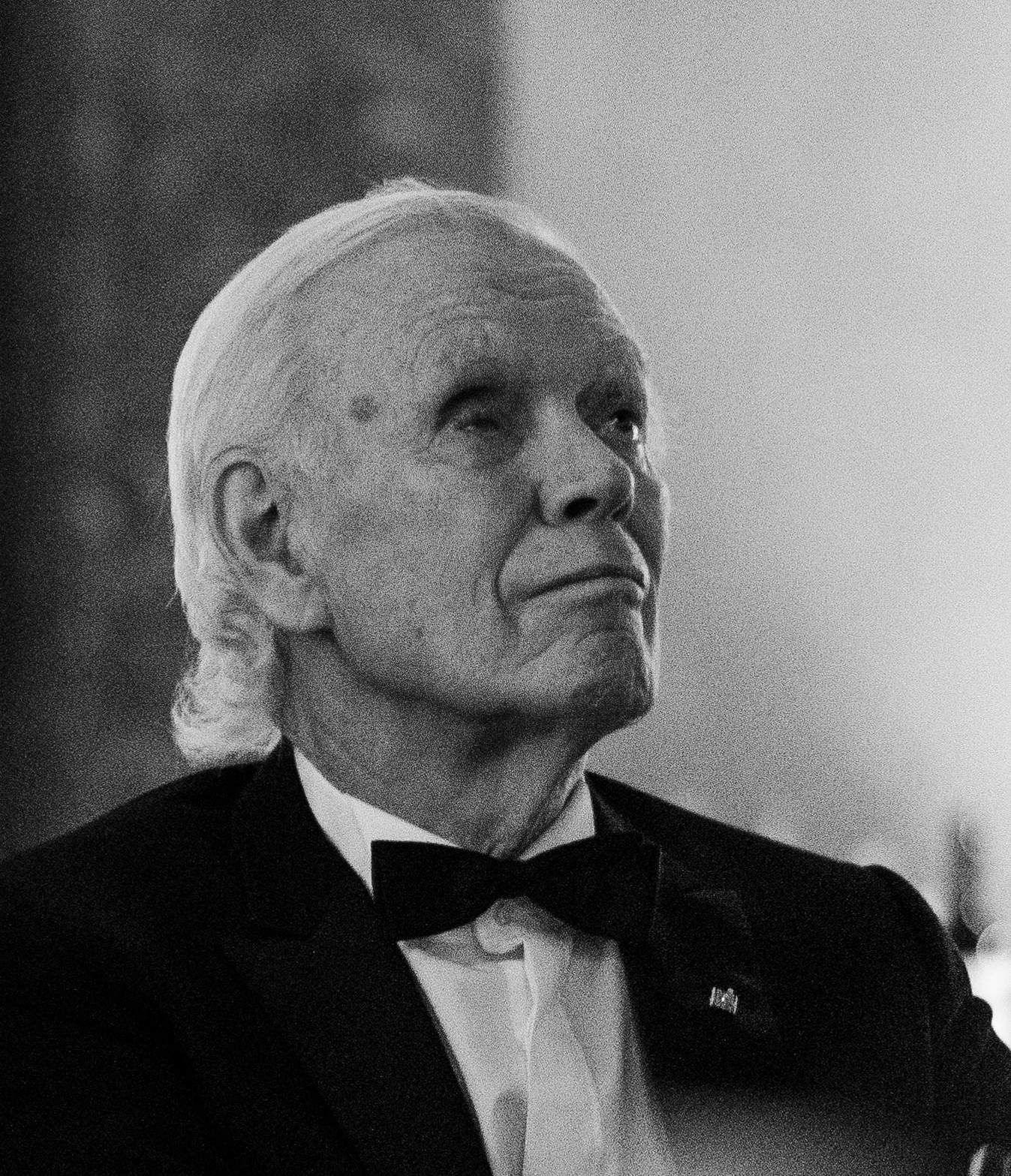 Lodewijk Woltjer, former ESO Director General. Image from European Southern Observatory 50th anniversary gala, Residenz, Munich, October 11, 2012.